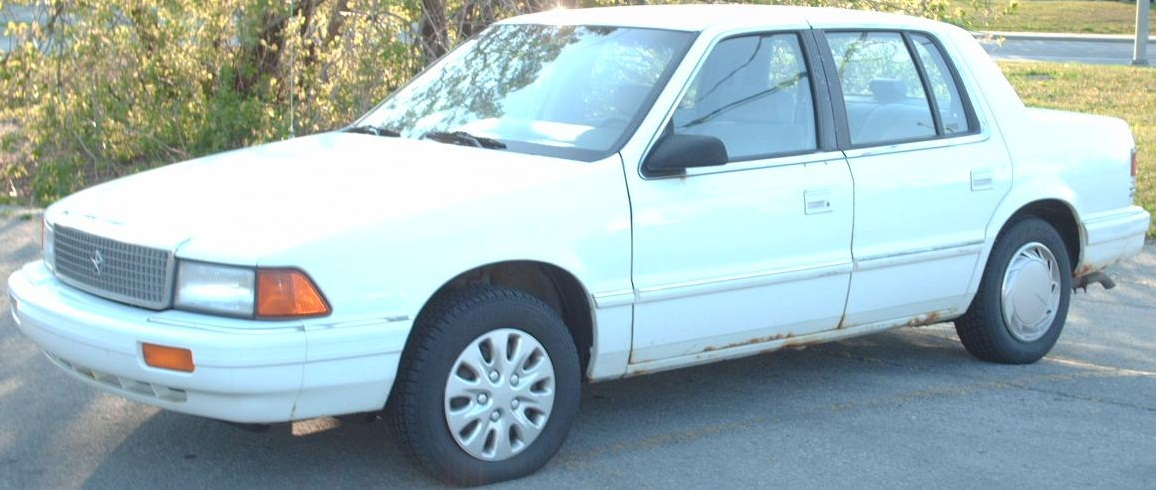 1991-1992 Plymouth Acclaim photographed in Pointe Claire, Quebec, Canada.